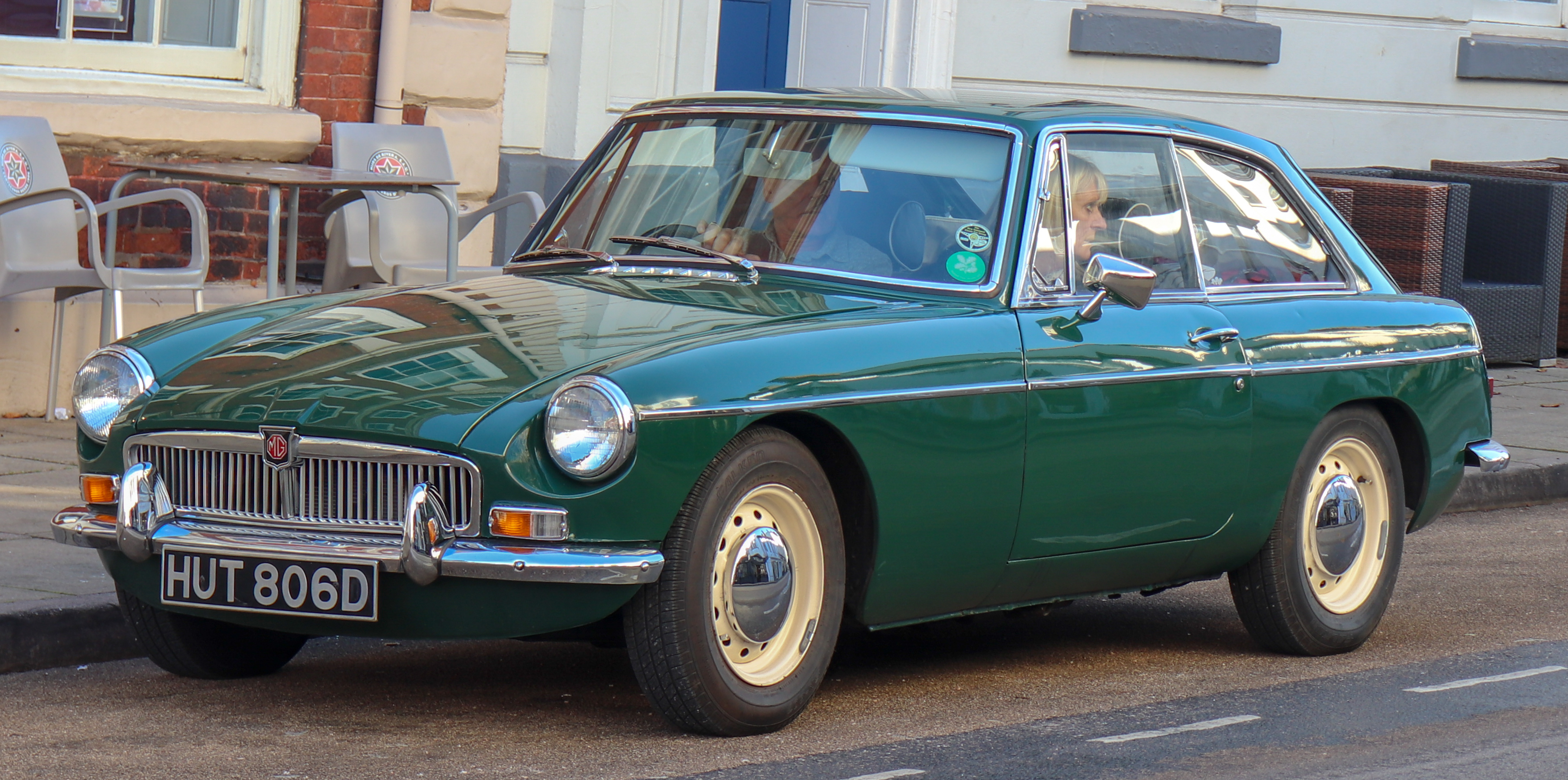 1966 MG B GT 1.8 Front Taken in Warwick